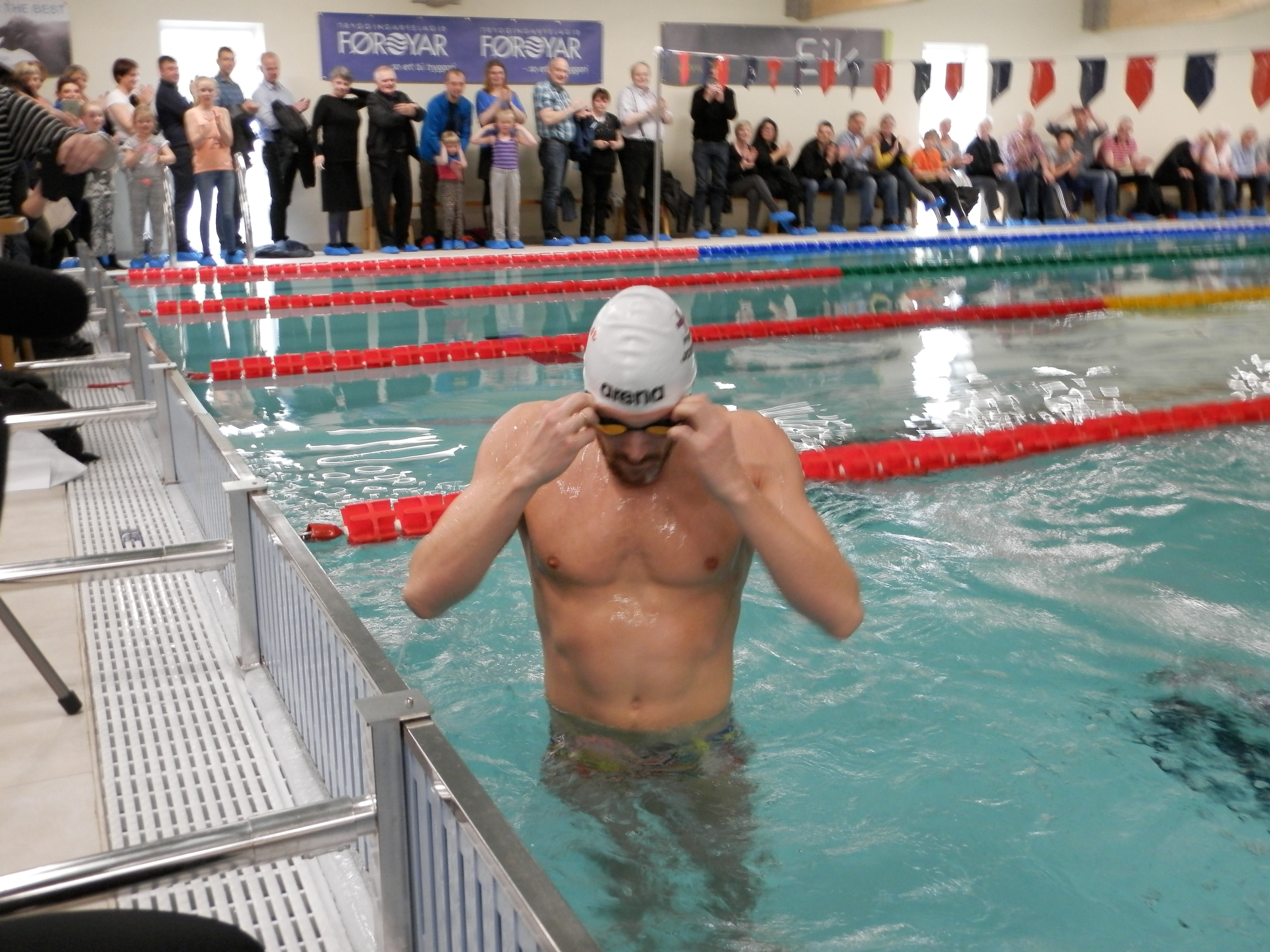 Páls Høll is the first 50-meter swimming pool in the Faroe Islands. It was built in Vágur from 2013 until 2015 and opened officially on 17 October 2015. It is named after Pál Joensen, who is - until now - the best Faroese swimmer ever and the only Faroese swimmer who has competed at the Olympics. The swimming pool is heated with the warm water from the SEV-electricity power plant, which until the hall was built was running into the sea. Pál Joensen was the first to swim on this opening day.